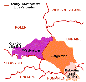 Map of Galicia in Eastern Europe, showing Austria-Hungarian era Eastern Galicia (western Ukraine) and Western Galicia (southeastern Poland) with modern boundaries.